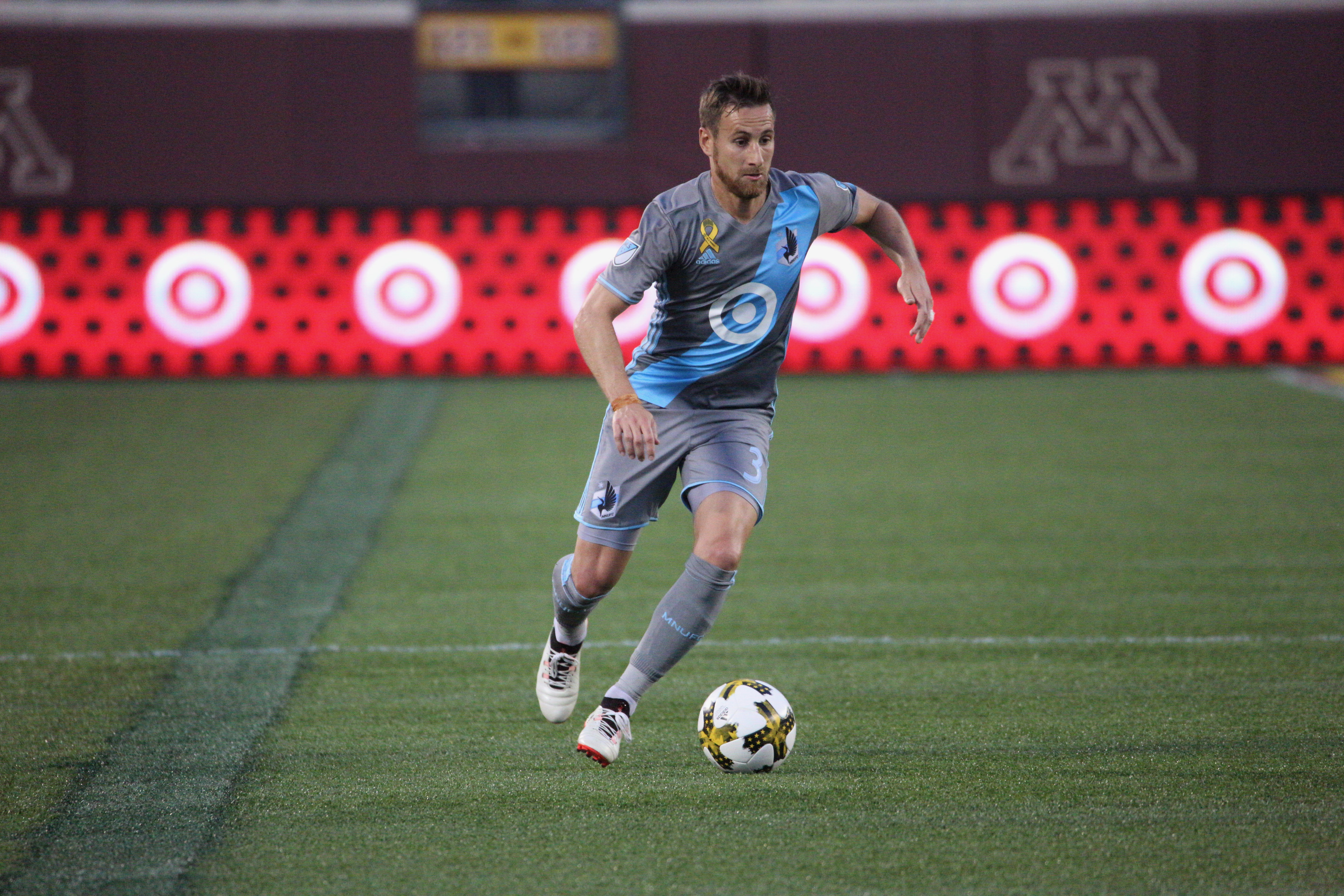 Philadelphia Union - Minnesota UNITED - MLS - Soccer Jerome Theisson